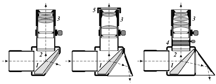 Solar eyepieces. 1 - Herschel wedge 2 - Neutral density filter 3 - Eyepiece 4 - Variable transmission polarizing filter 5 - Exchangeable neutral density filter An eyepiece for a telescope designed for visual observation of the sun. A solar eyepiece is used to provide a reduction in the brightness of the sun’s image with minimum loss of the telescope’s resolving power. Devices used in solar eyepieces to attenuate the light include neutral filters, photometer wedges, and polarizing devices.